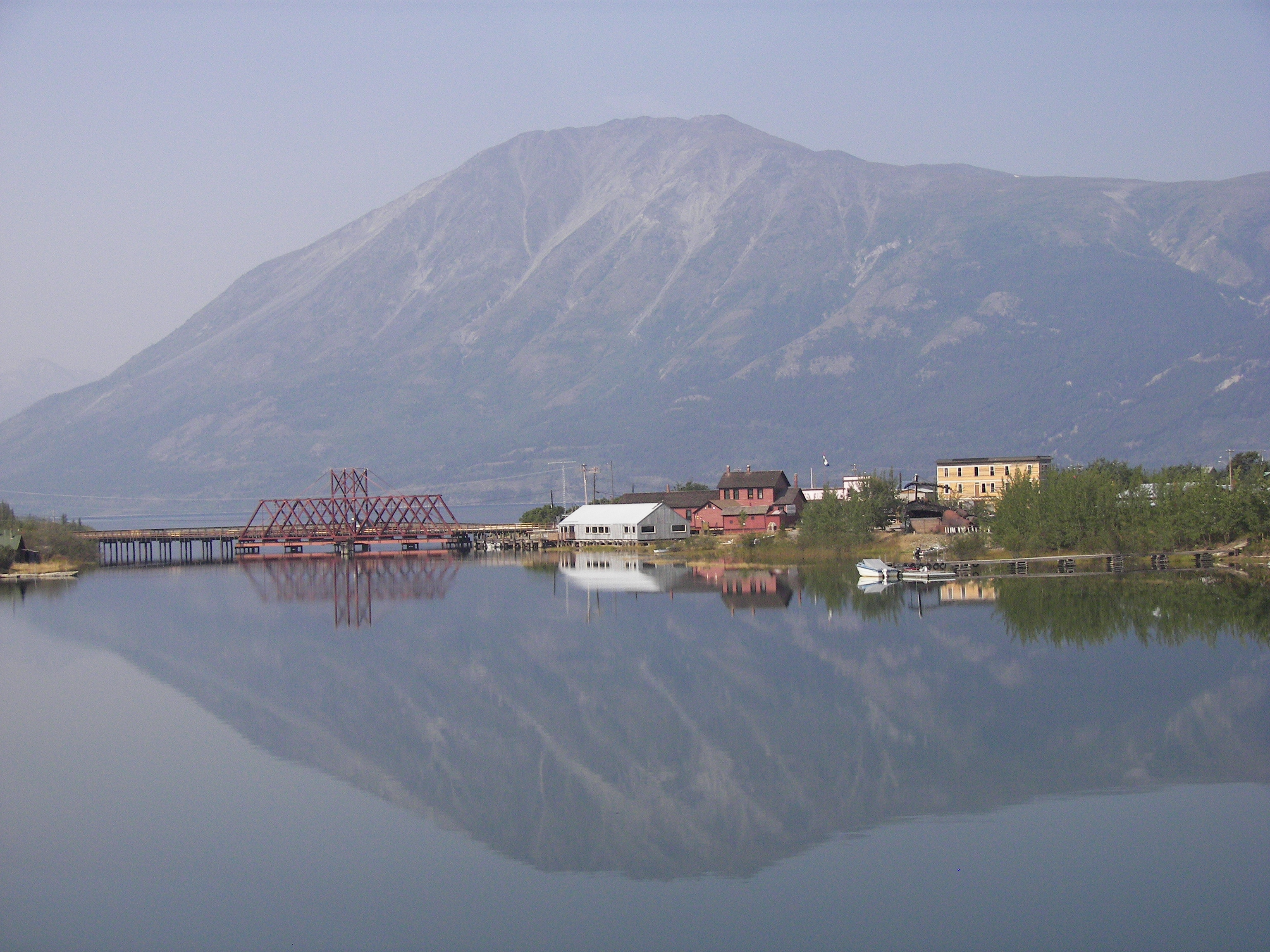 The White Pass and Yukon Route rail bridge over the strait between Bennett Lake and Nares Lake in Carcross, Yukon, Canada. Mount Gray is in the background. The picture was taken from the Klondike Highway bridge over the same strait.